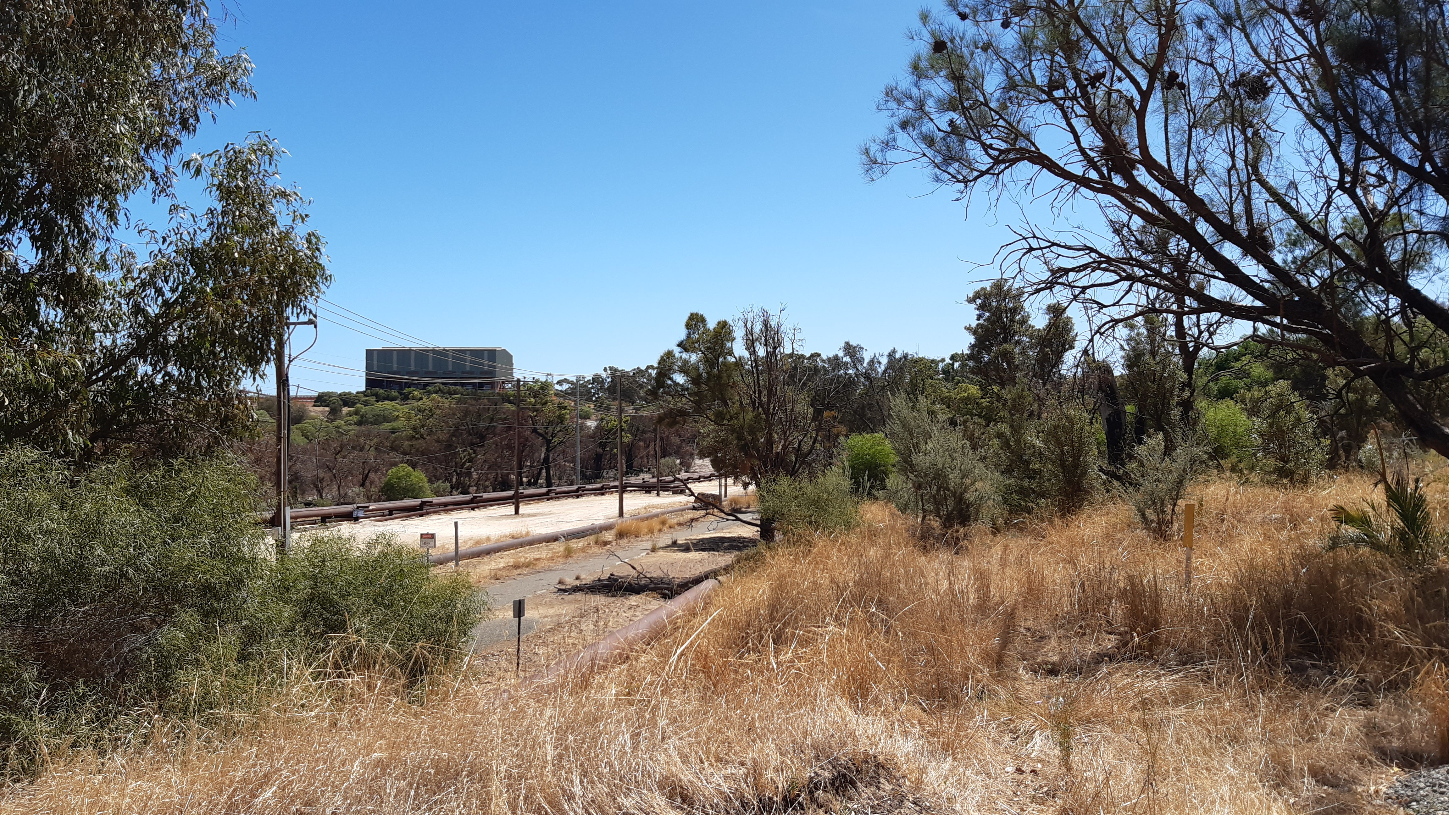 Alcoa Tailings Facility, Hope Valley, Western Australia, seen from Anketell Road.